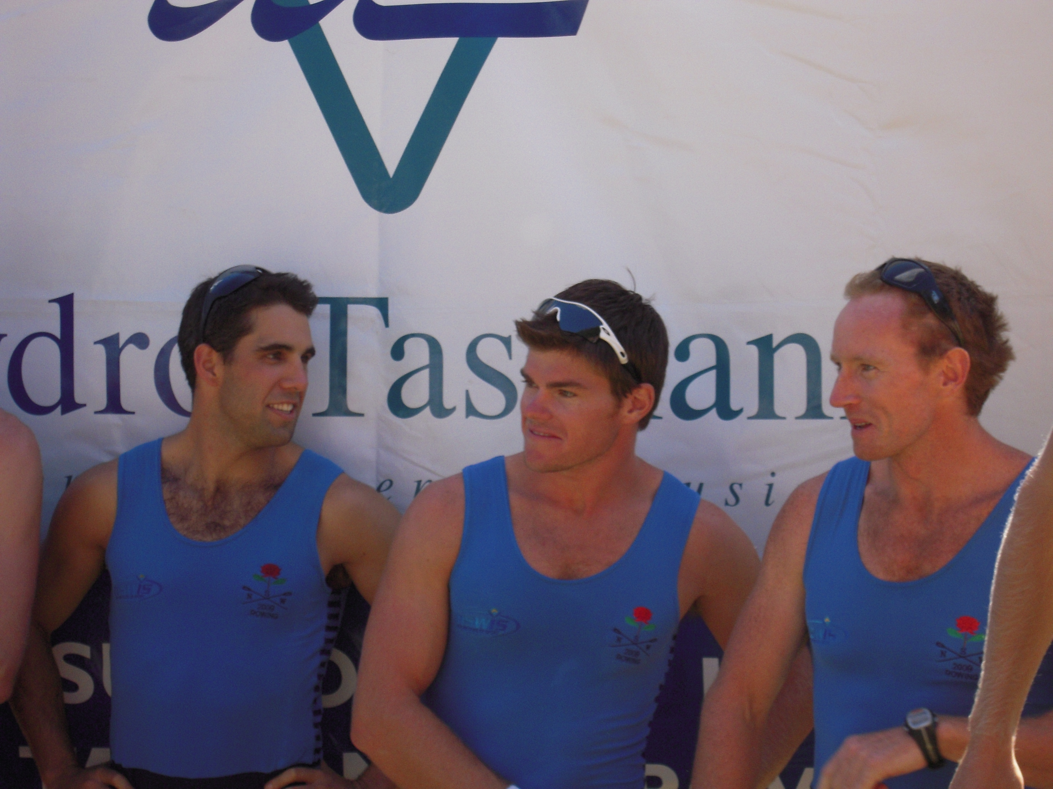 Left to Right: Nick Hudson, Sam Loch and Dan Noonan after winning the 2009 Kings Cup for New South Wales at Lake Barrington, Tasmania